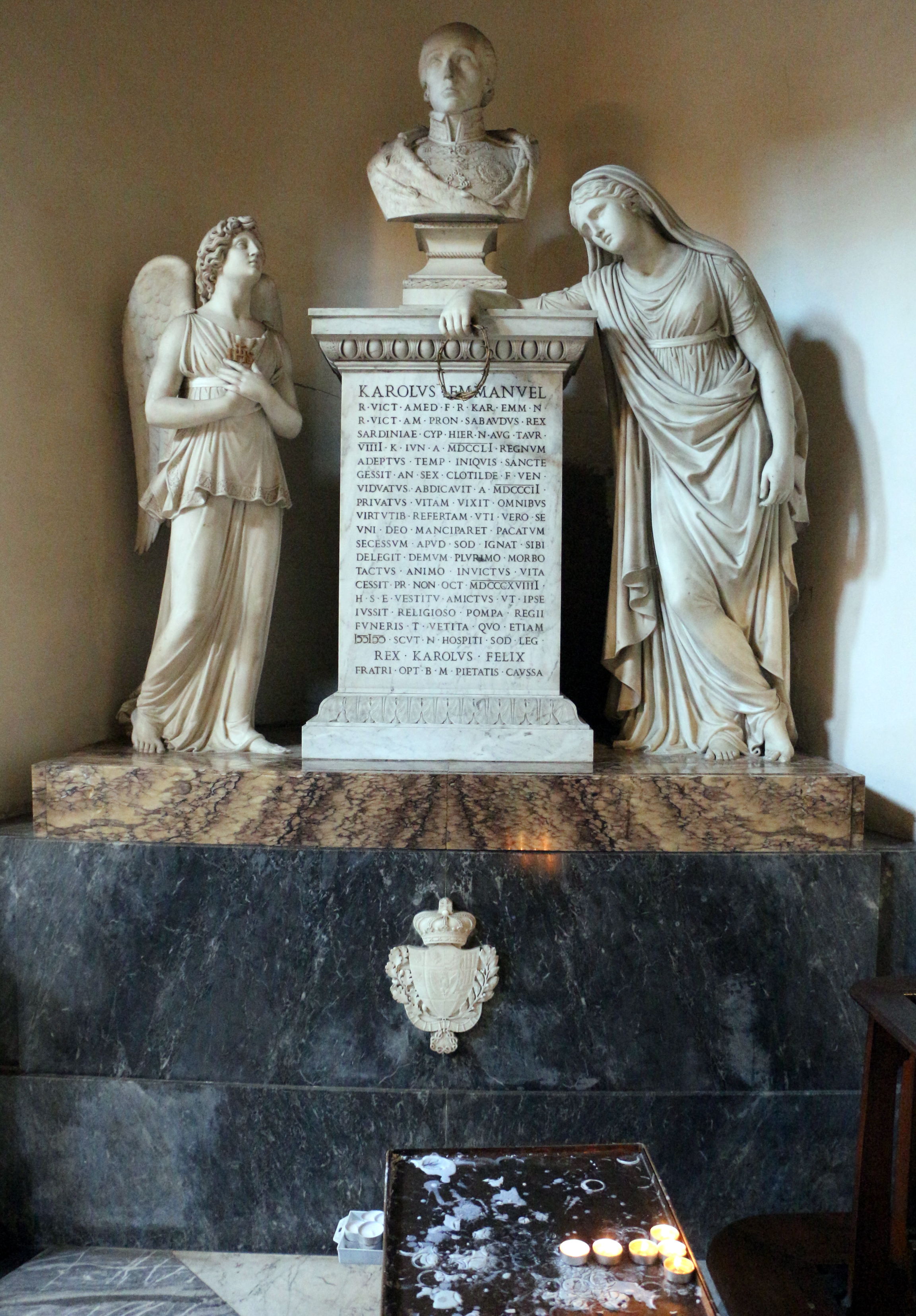 Sant'Andrea al Quirinale - Interior